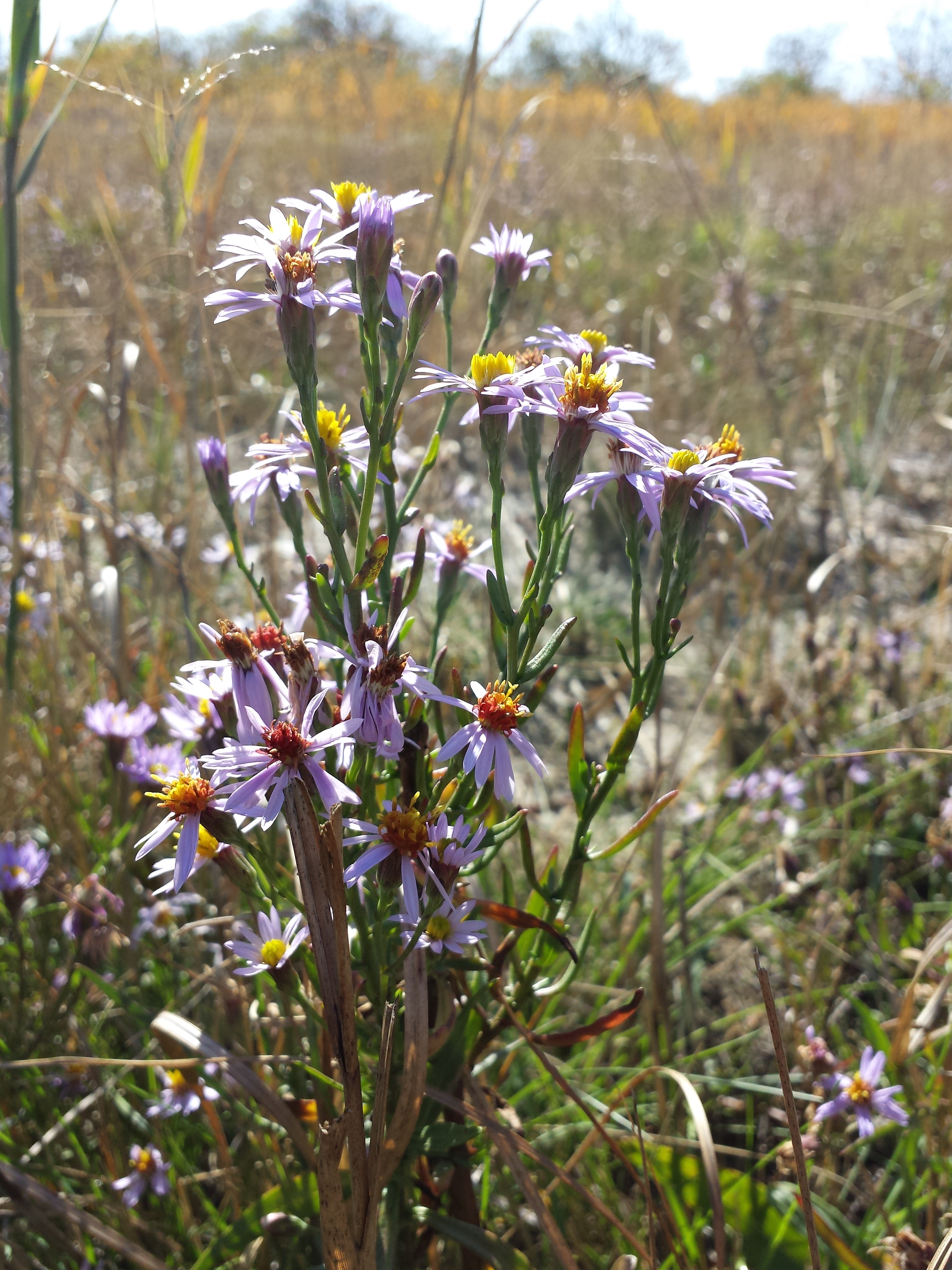 Habitus Taxon: Tripolium pannonicum (subsp. pannonicum) (sensu Fischer et al. EfÖLS 2008; det M. A. Fischer 2013-10-12) Location: small salt lake near Podersdorf, district Neusiedl am See, Burgenland, Austria - ca. 120 m a.s.l. Habitat: dried-out small salt lake